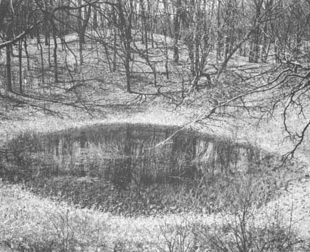 From